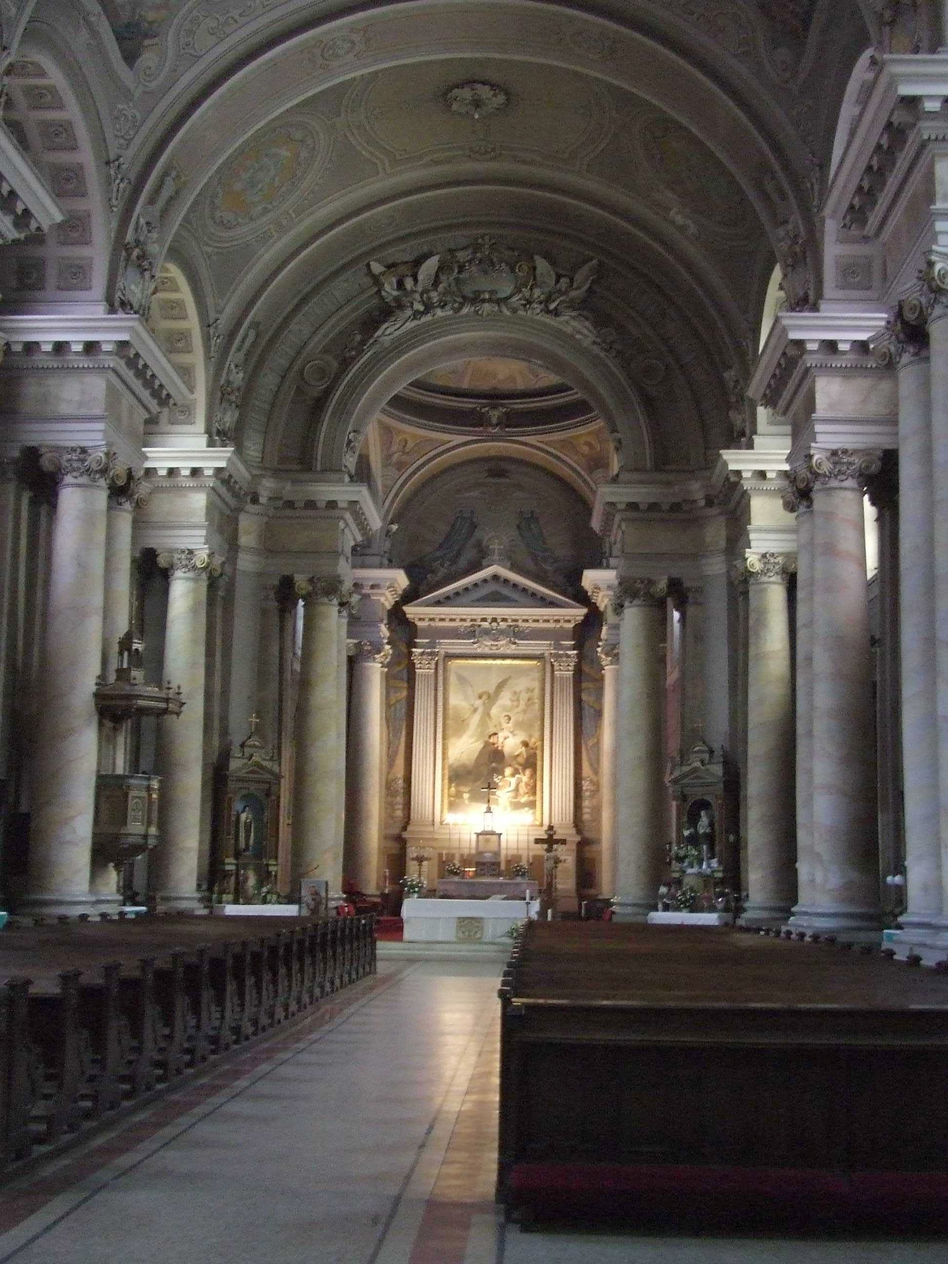 Inside view of the Catholic cathedral St Antony of Padua in Arad, Romania